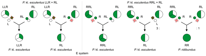 Hybridogenesis in water frogs, All-hybrid (E) system.